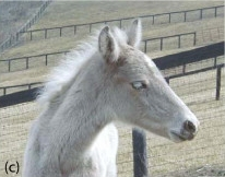 Phenotypic description of Silver colored foals. (Horse coat colors: Silver dapple gene)C. White eyelashes of a Silver colored Rocky Mountain Horse colt. Photo: Unknown.